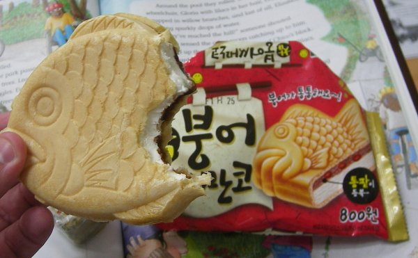 Gold fish bread (붕어빵/bungabbang) inspired ice cream novelty.